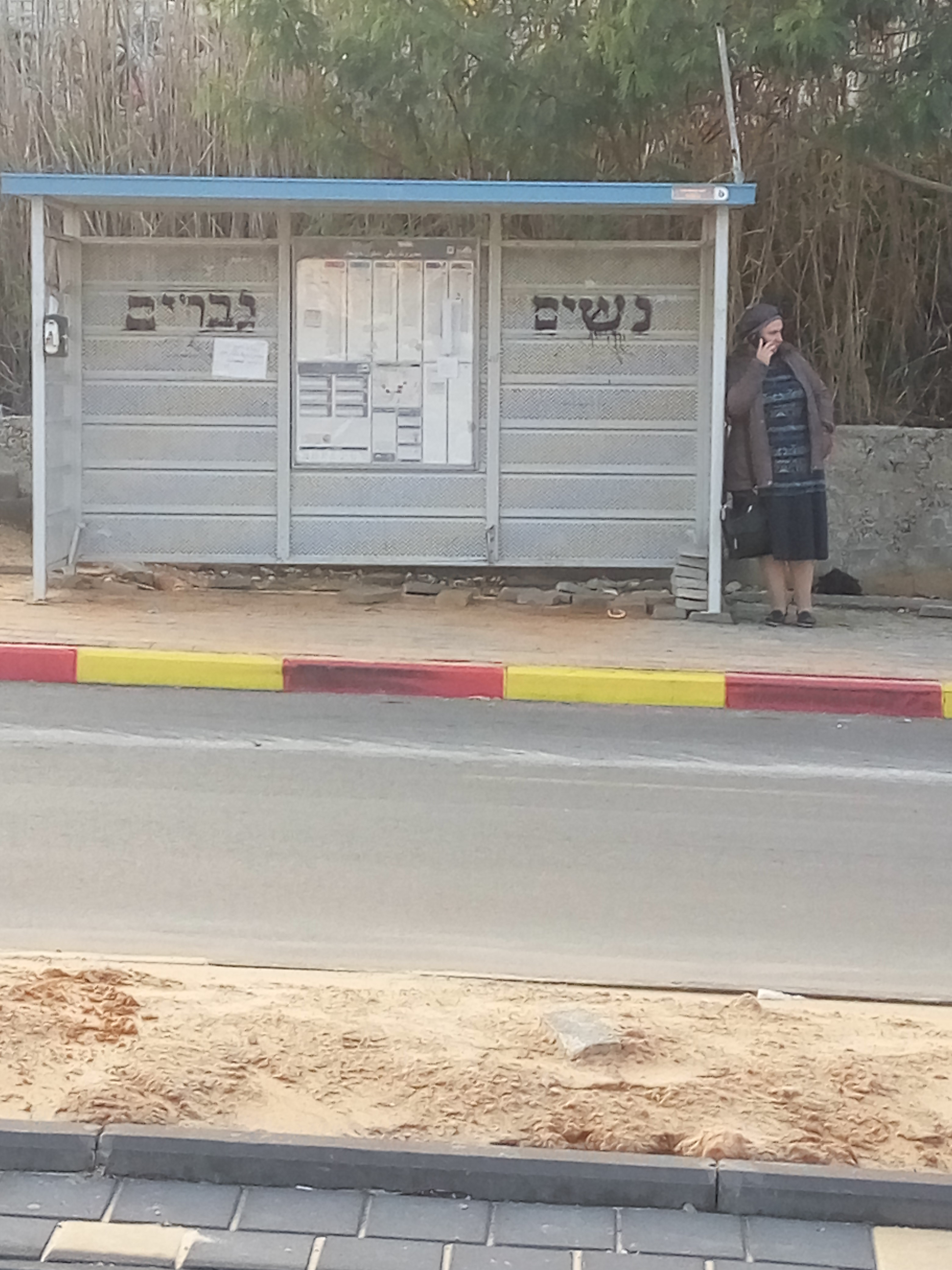 Gender separated Bus station in Beit Shemesh